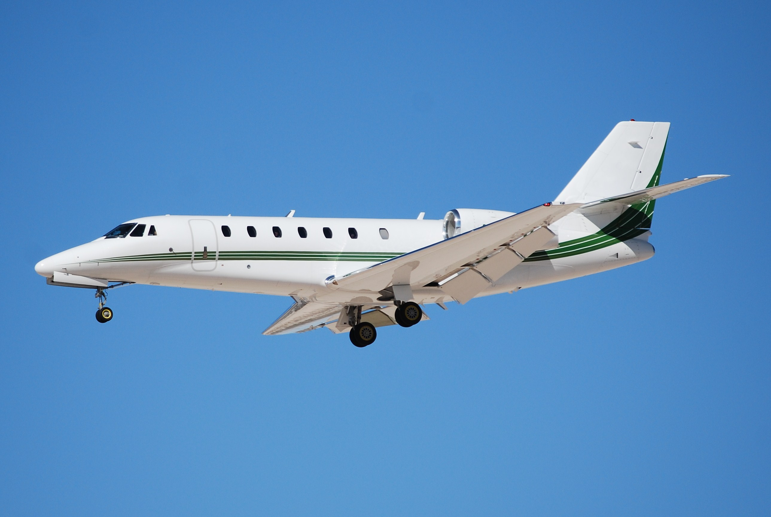 Cessna Citation Sovereign